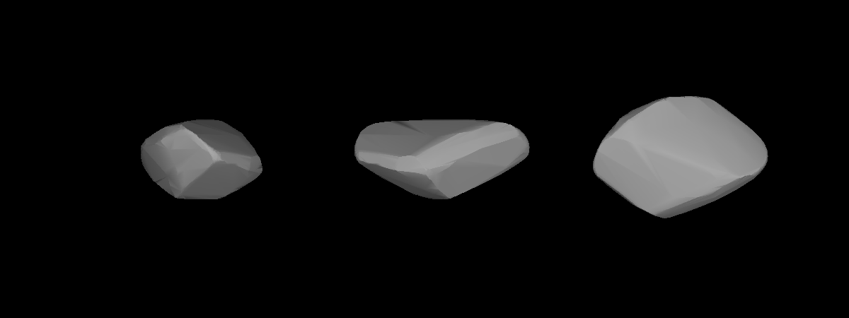 A three-dimensional model of 1528 Conrada that was computed using light curve inversion techniques.